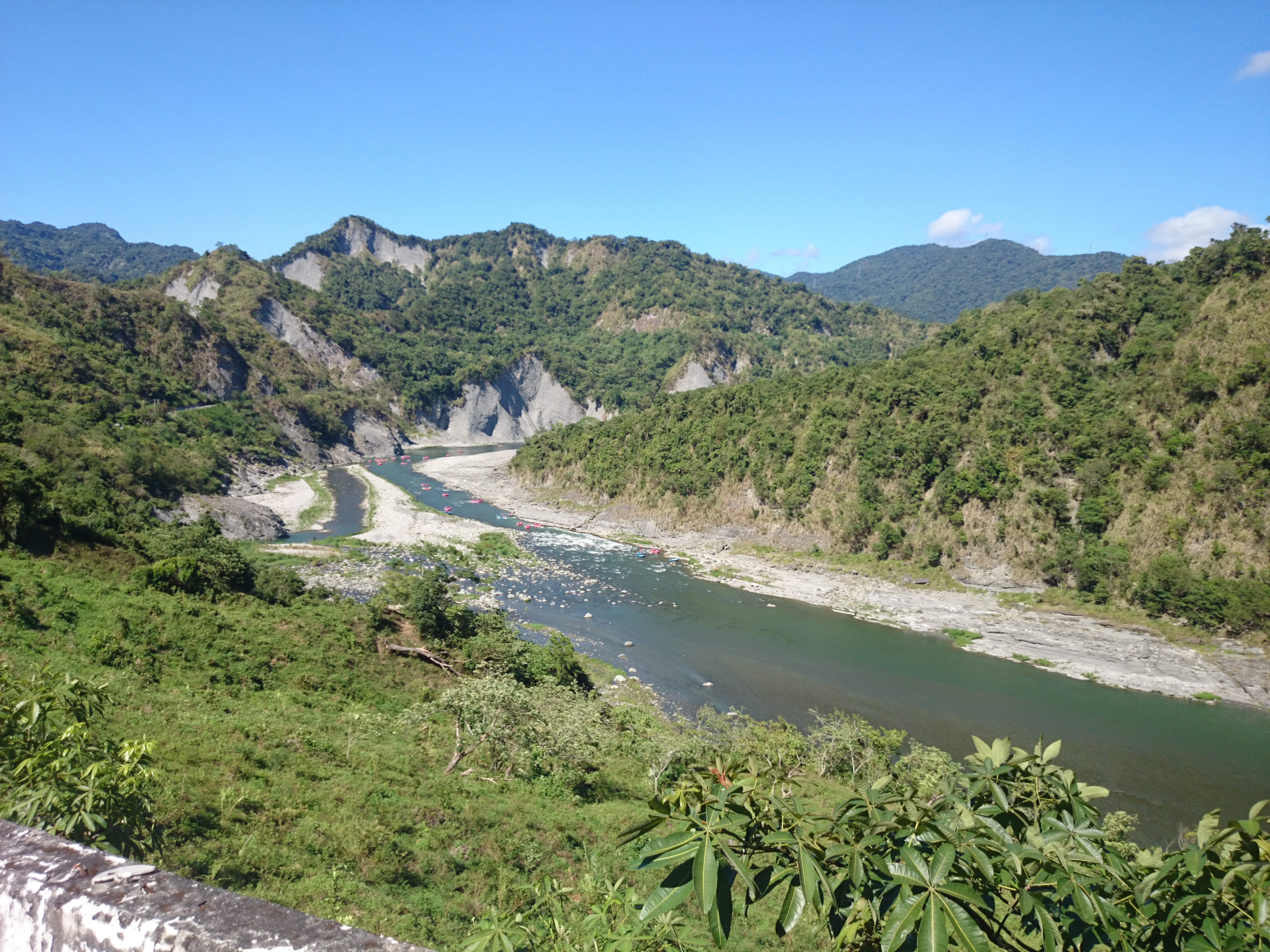 Xiuguluan River offers best conditions for rafting in Qimei.